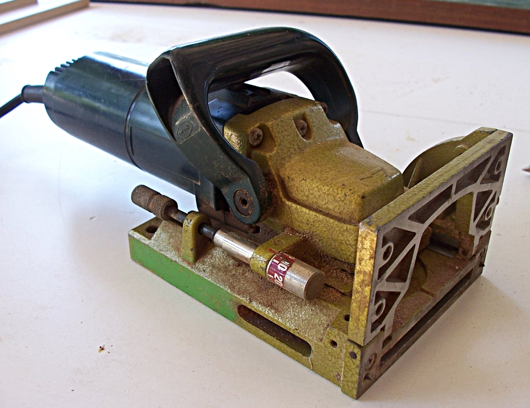 Biscuit jointers for Lamellos.